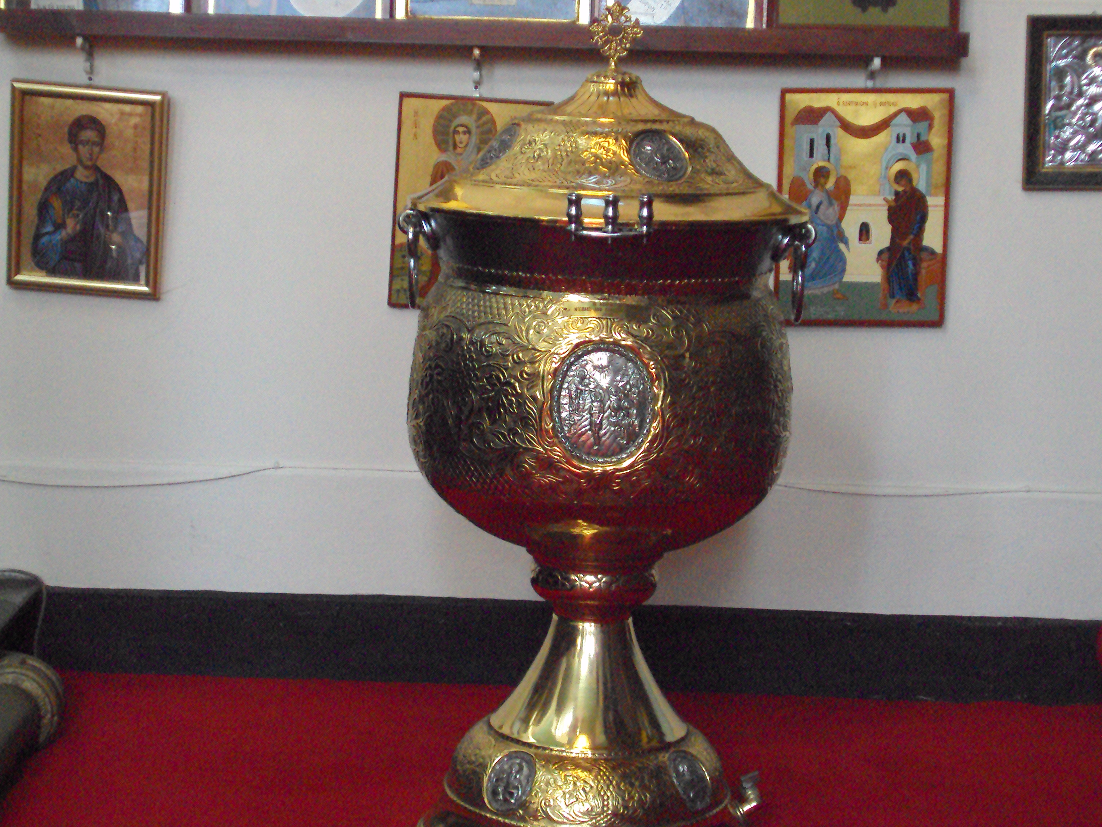 Photo taken at the Greek Orthodox Church of St Nicholas, Liverpool, England.